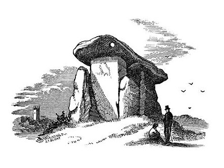 Trethevy Quoit - Liskeard - Cornwall - UK